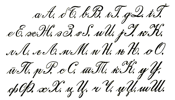 Macedonian cursive script Author: Bjankuloski06en